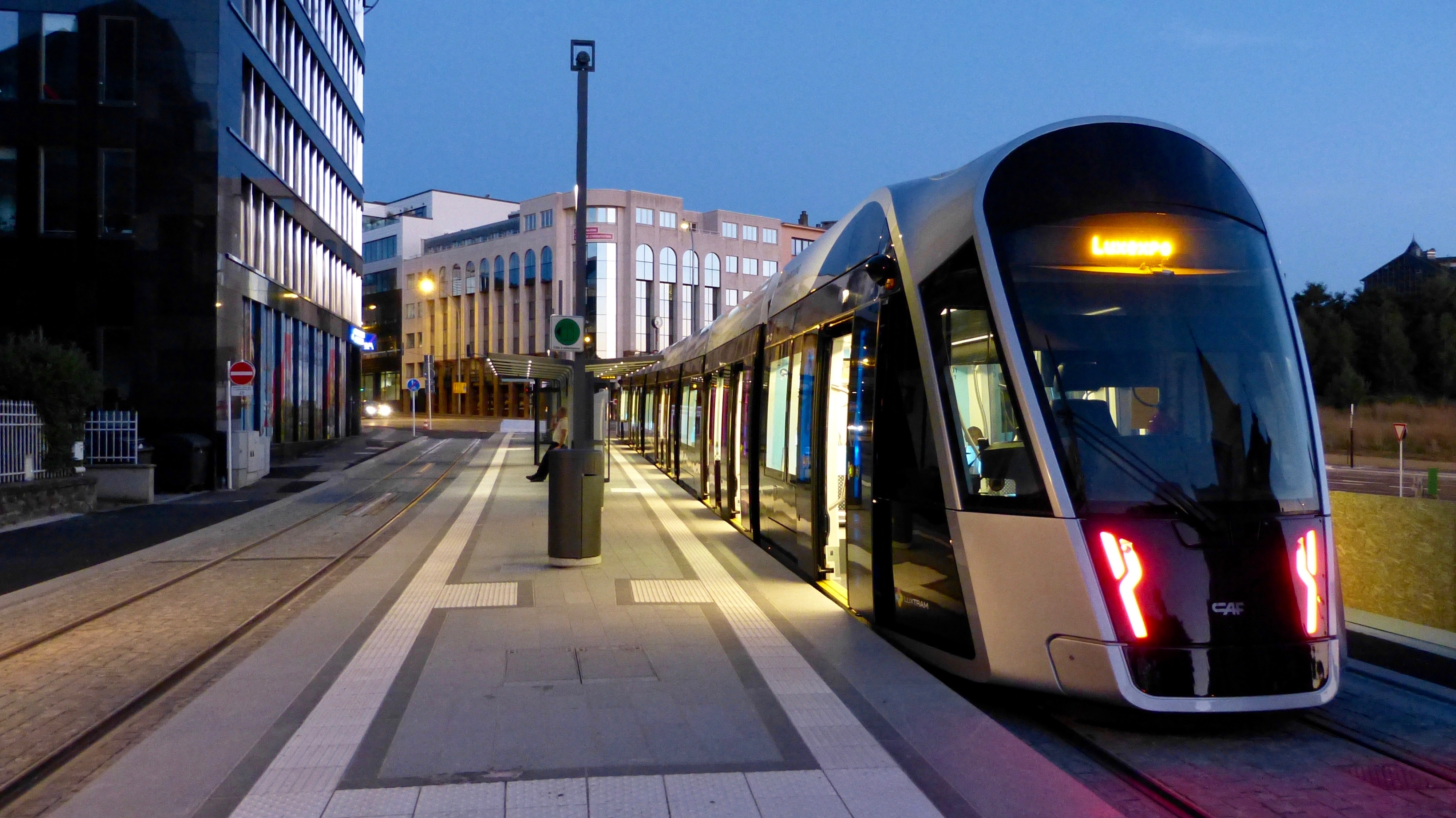 new Tram in Luxembourg-city, stop "Stäre-Plaz"